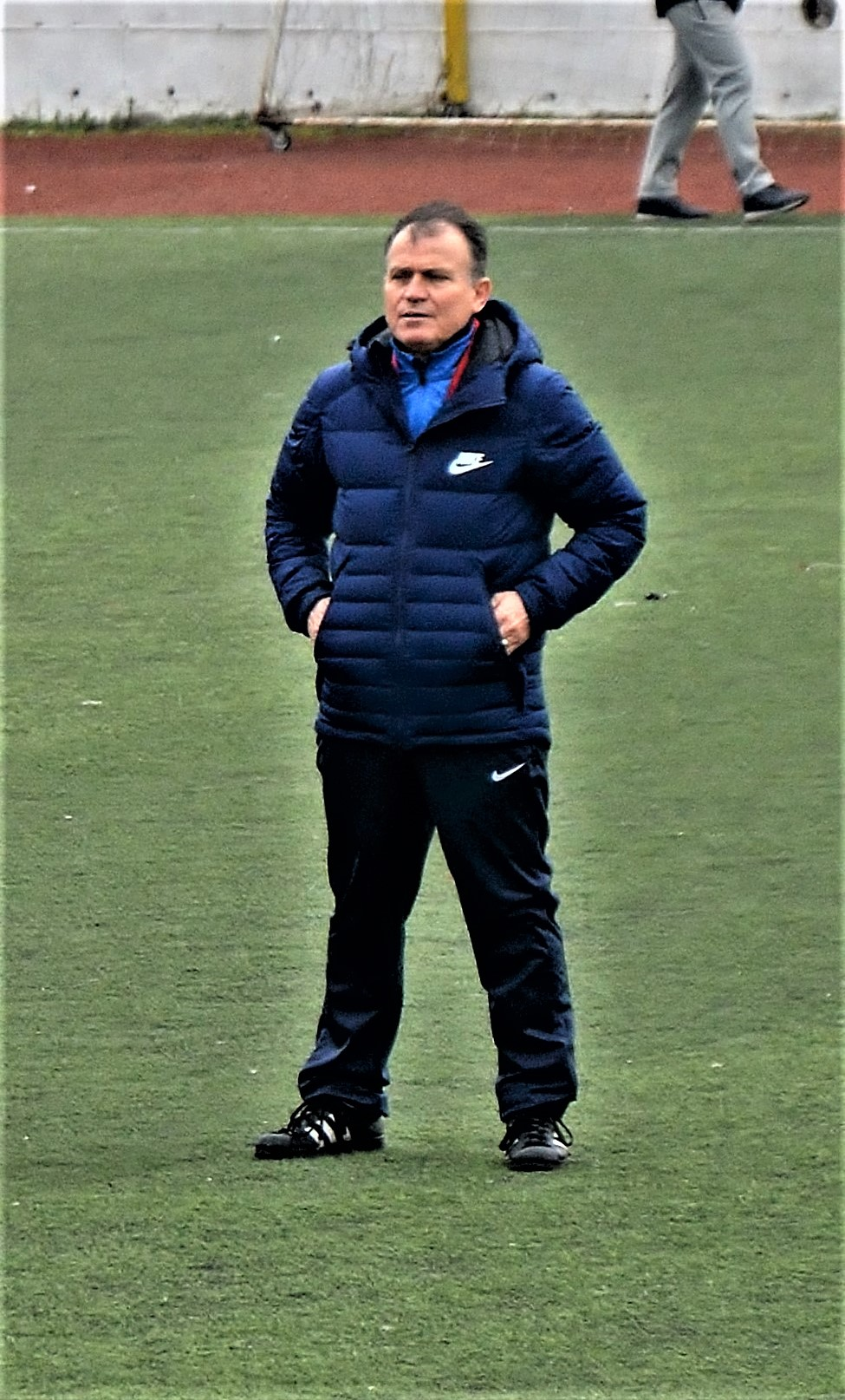 Ali Alanç coaching Konak Belediyespor in the 2017-18 Turkish Women's First Football league